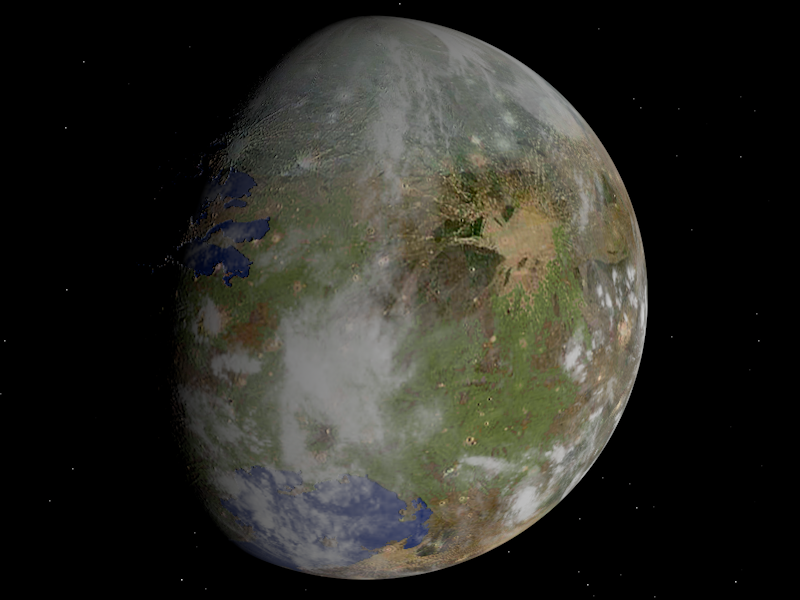 An artist's rendition of Nibru.